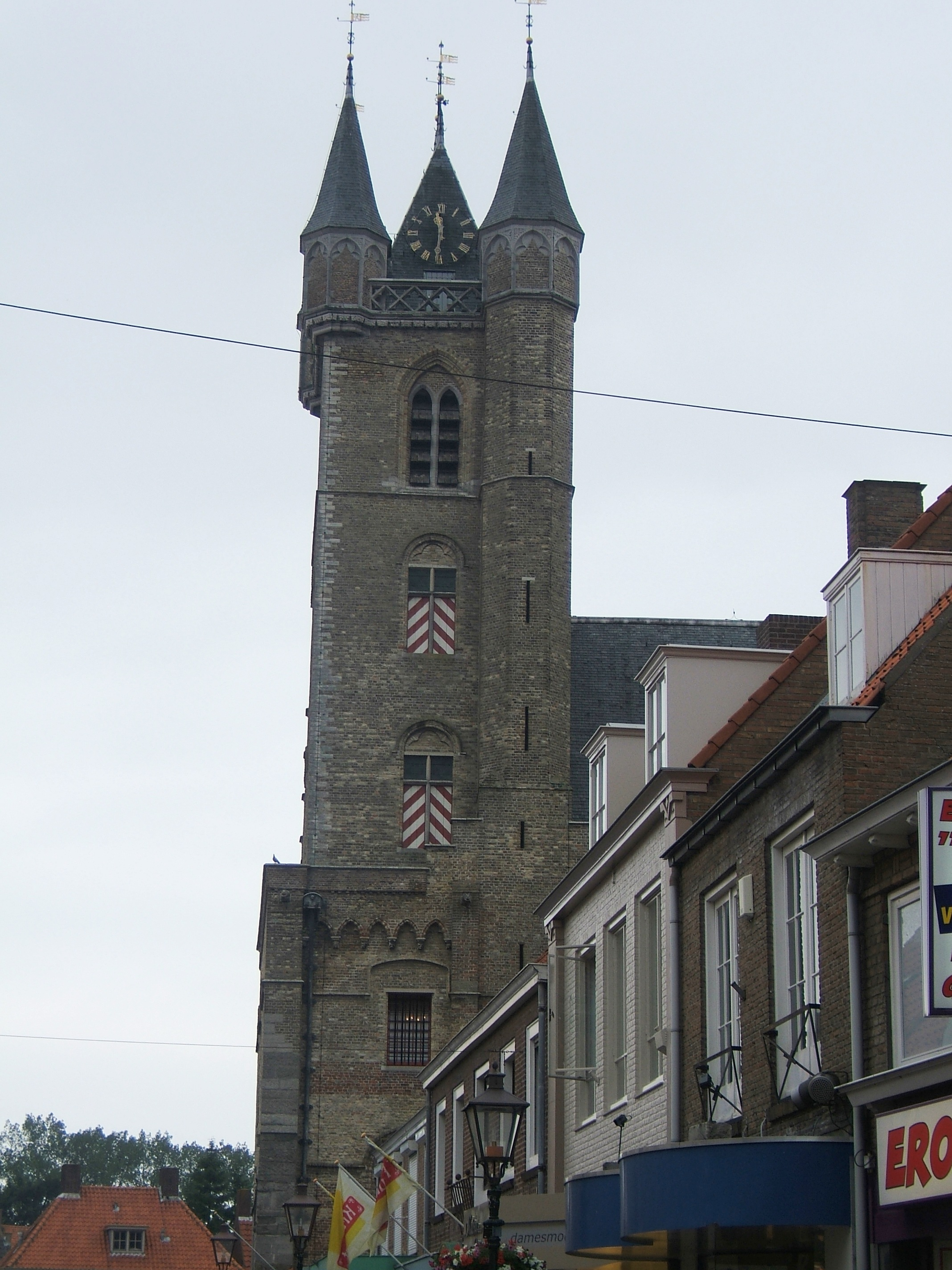 The Belfort of the town hall in Sluis. This Belfort tower is the only one in the Netherlands.